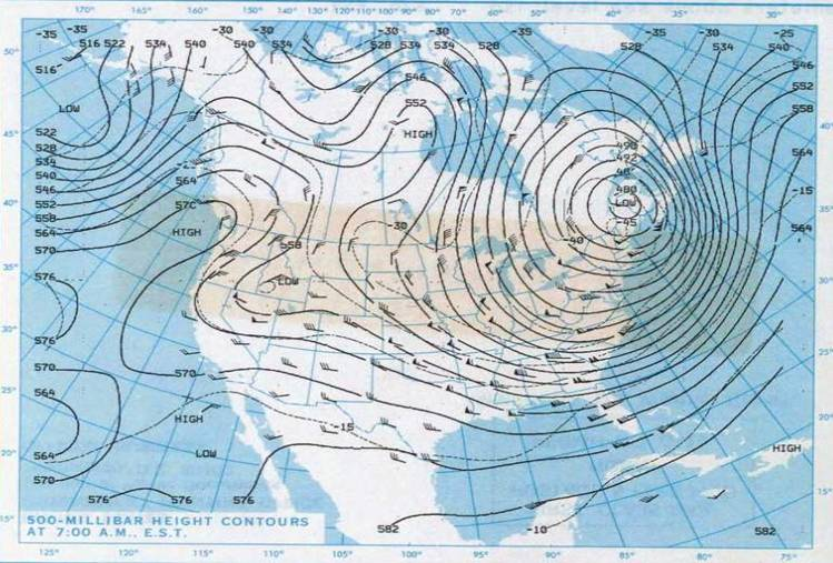 This is from the Daily Weather Map series, January 21, 1985, and shows the position of a strong low-pressure area (which composes part of the polar vortex) over Maine.